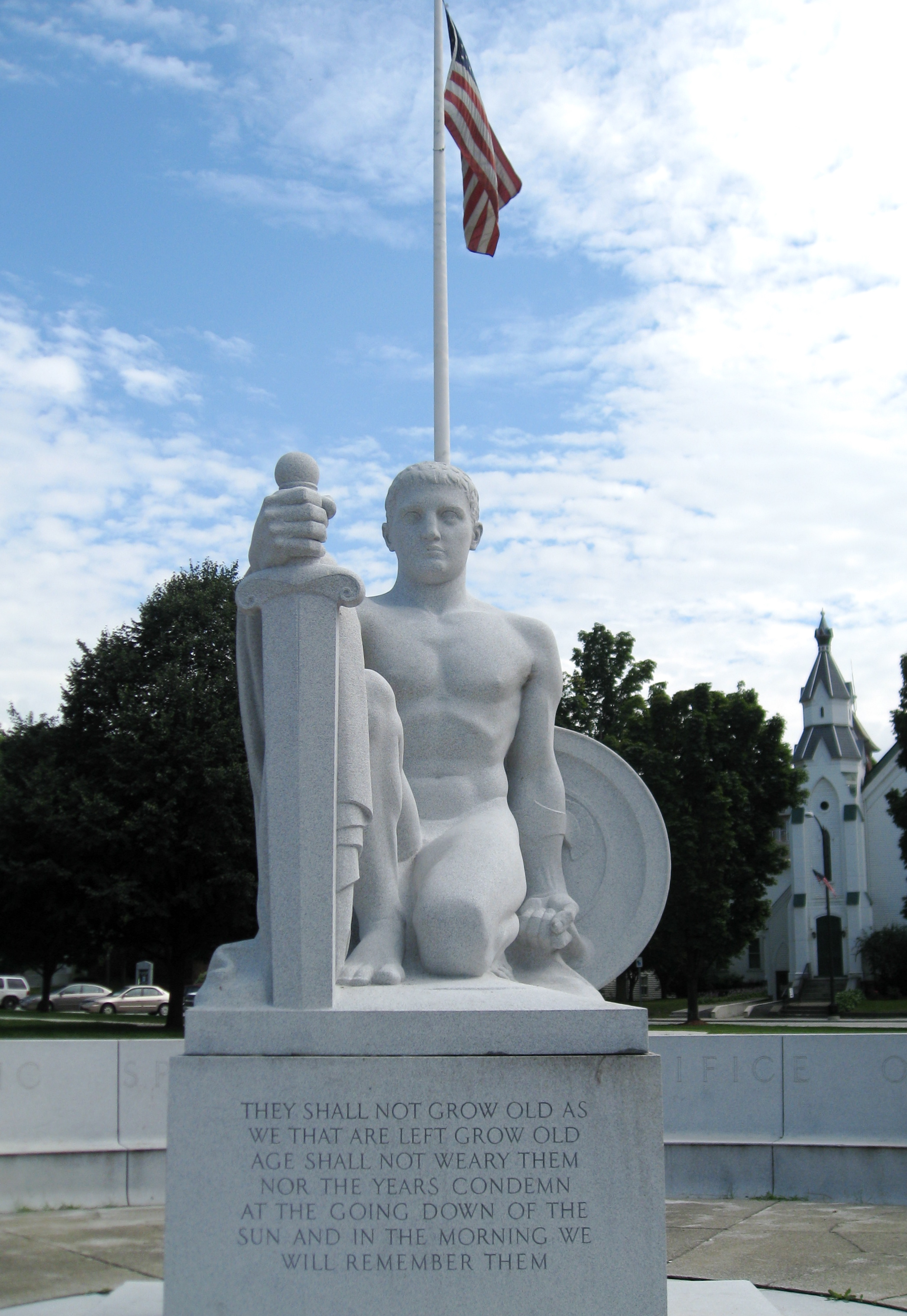 World War One Memorial, Barre, Vermont, Washington County, USA